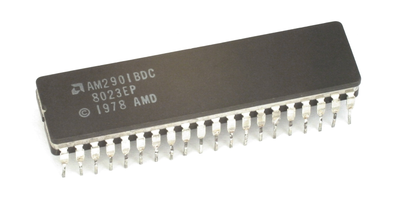 AMD Am2901